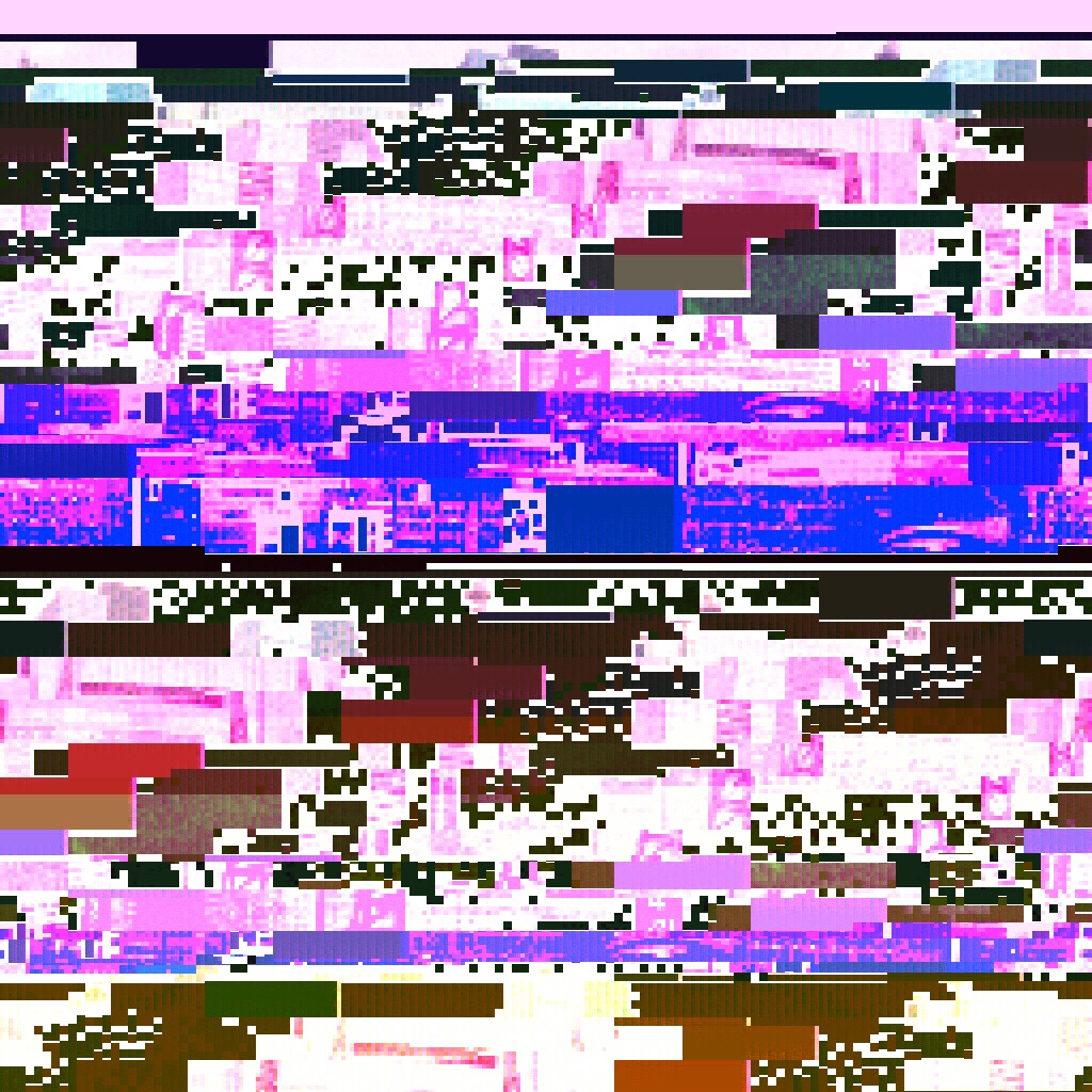 Glitched image (give attribution to me if you use this if you want, but it's not required)